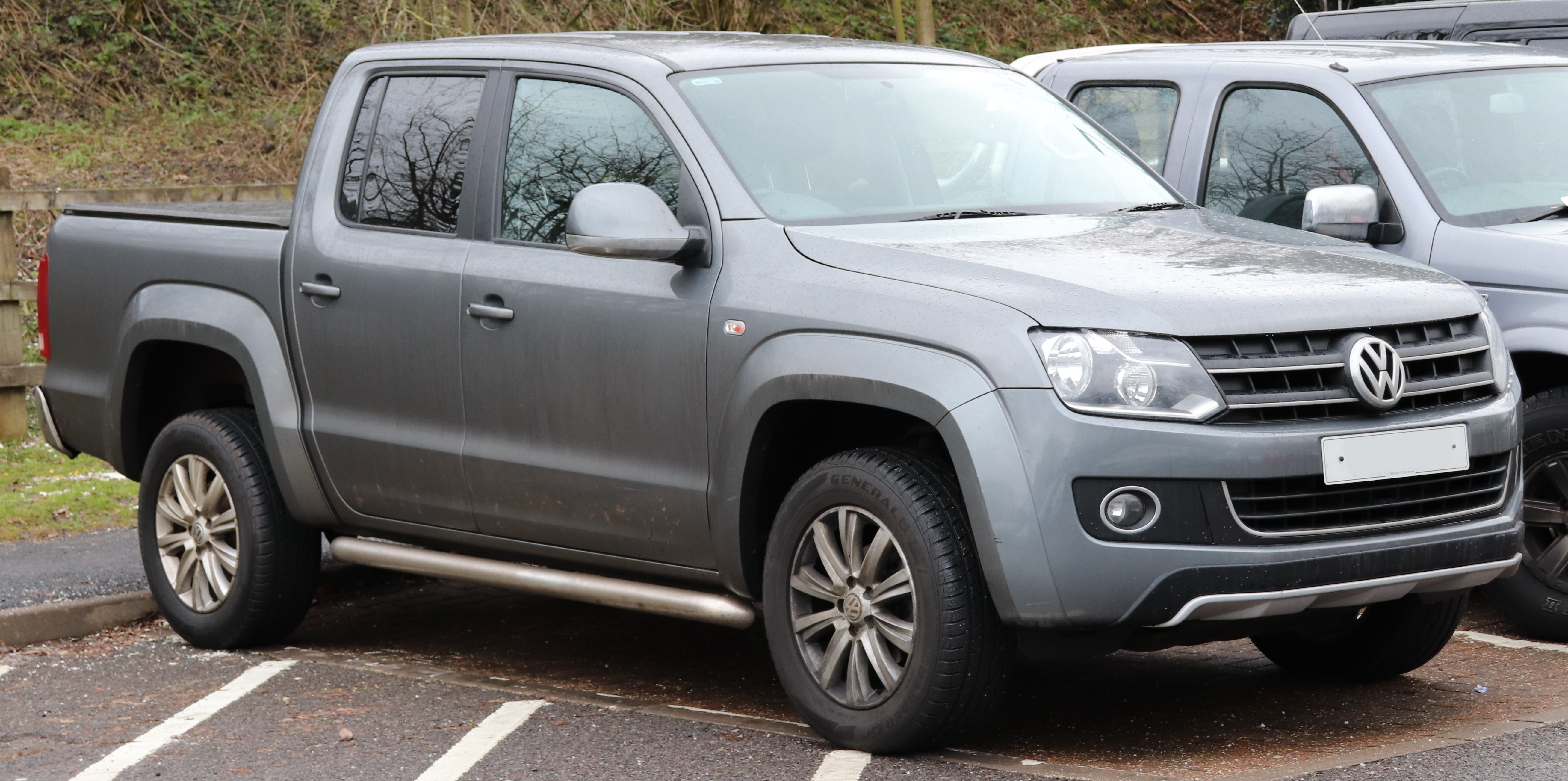 2011 Volkswagen Amarok Highline 4MOTION Diesel 2.0 Taken in Warwick